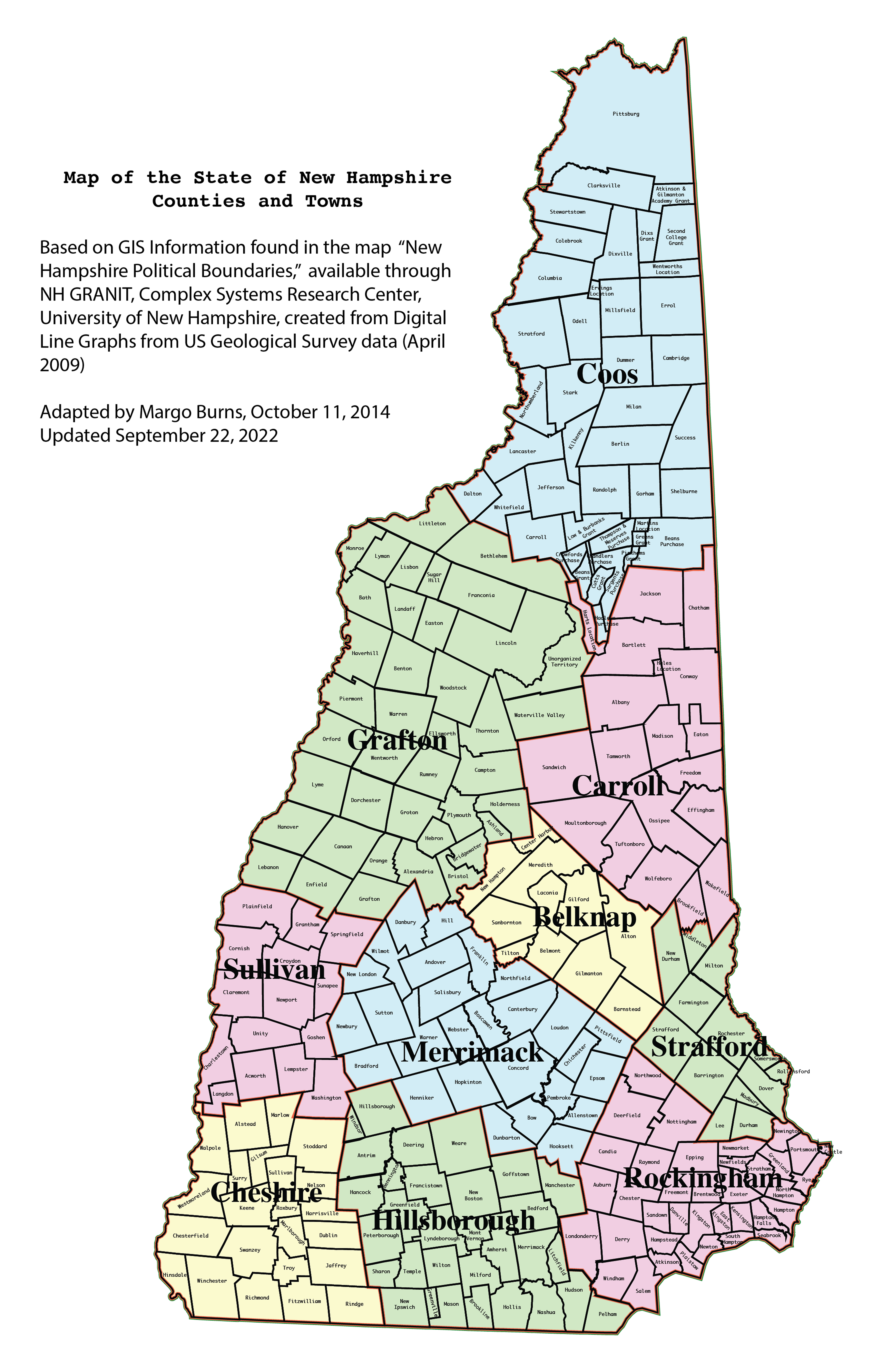 Map of the State of New Hampshire Counties and Towns Based on GIS Information found in the map “New Hampshire Political Boundaries,” available through NH GRANIT, Complex Systems Research Center, University of New Hampshire, created from Digital Line Graphs from US Geological Survey data (April 2009) Adapted by Margo Burns, October 11, 2014